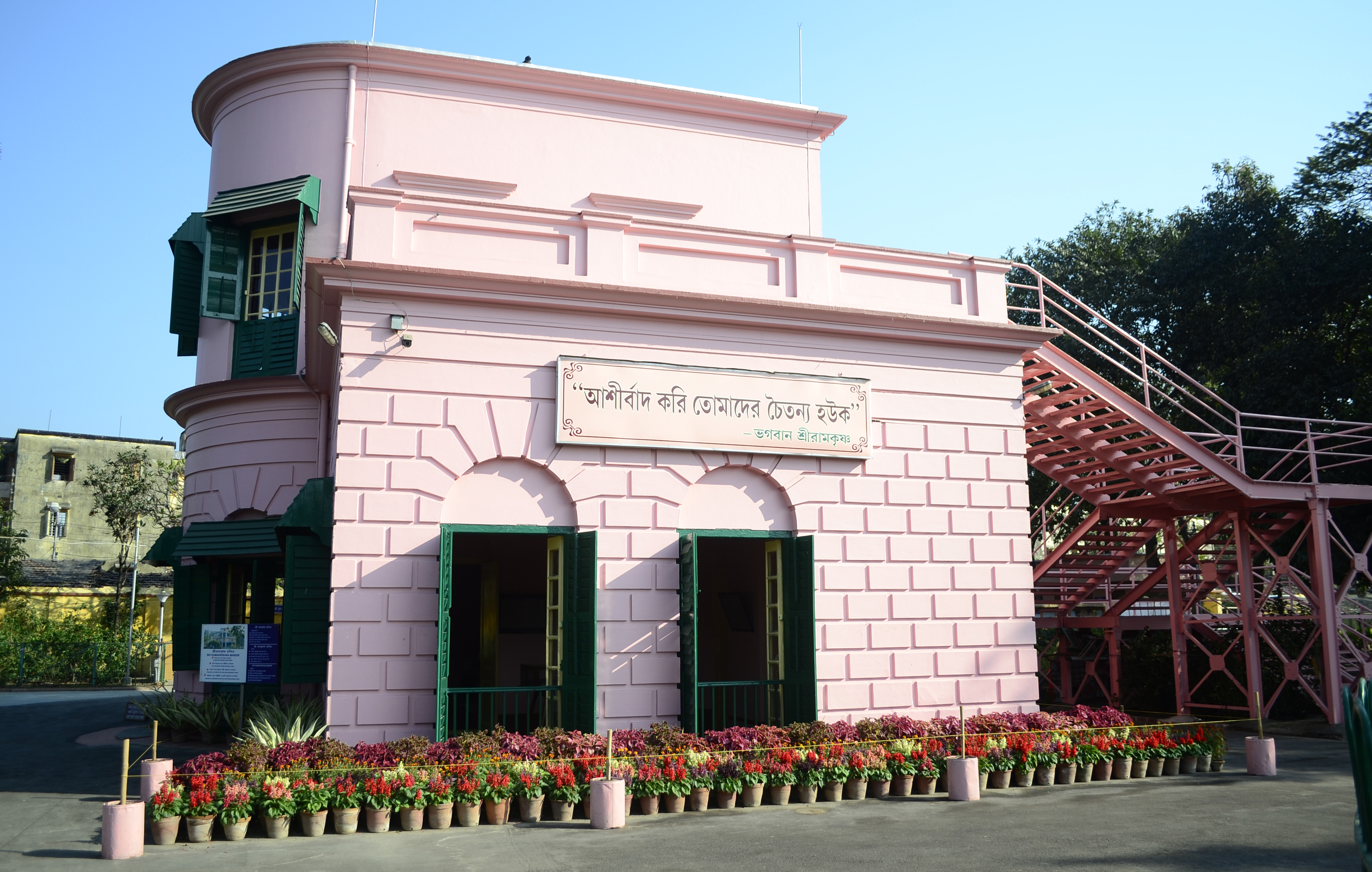 When Sri Ramakrishna was suffering from serious illness, he was removed for treatment from the Kali Temple of Dakshineswer to Shympukur in the month of October, 1885. A little more than three months after, when it was found that medicine and diet did not effect any improvement, the devotees at the suggestion of Dr. Mahendra Lal Sarkar, brought him in the afternoon of the 11th December, 1885 to the Cossipore Garden House which stood on the broad road that ran through the northern part of Calcutta and joined the Baghbazar area with Baranagar, three miles away from the city. This garden was free from stuffy and polluted atmosphere and the devotees were extremely happy when they saw that the master was pleased to find the fresh air and solitude of the place abounding in fruits and flowering plants.